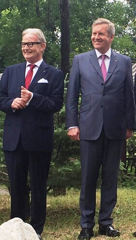 Marc Pasture and Christian Wulff participating in the 5-year celebration of Beijing Huaxia Management College. Marc Pasture和Christian Wulff出席北京华夏管理学院五周年庆典。